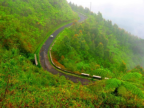 Road access to Mount Telomoyo.